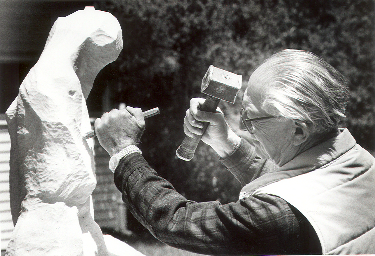 Robert Russin's sculptures are found internationally, but particularly in Wyoming, where he resided. Russin is seen here at work at his residence in Laramie, Wyo.